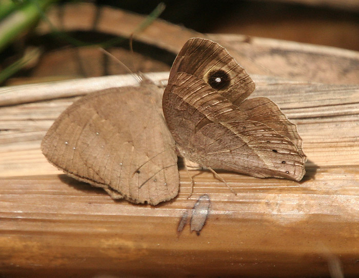 Dark-brand Bushbrown Mycalesis mineus in Kolkata, West Bengal, India.